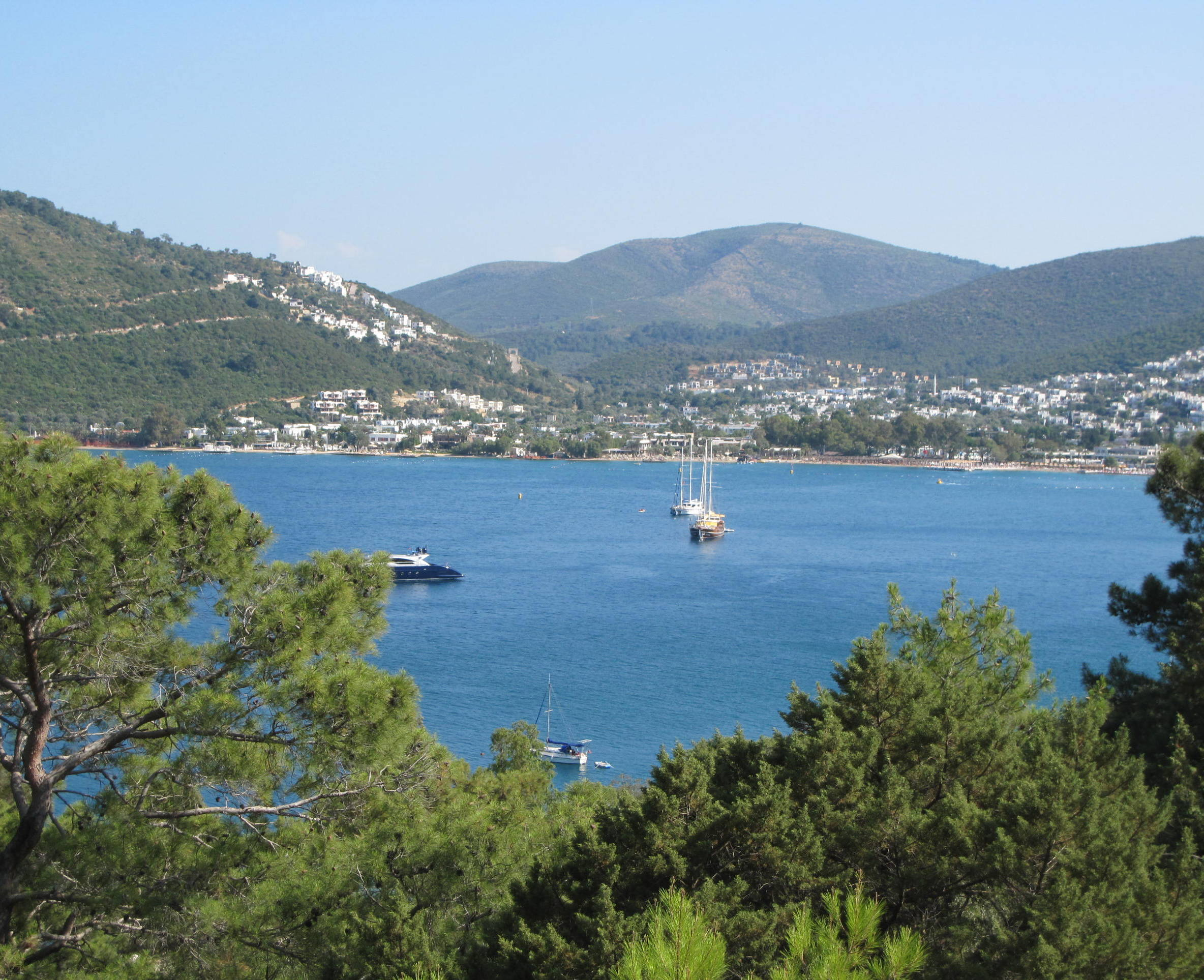 The bay looking back at the village